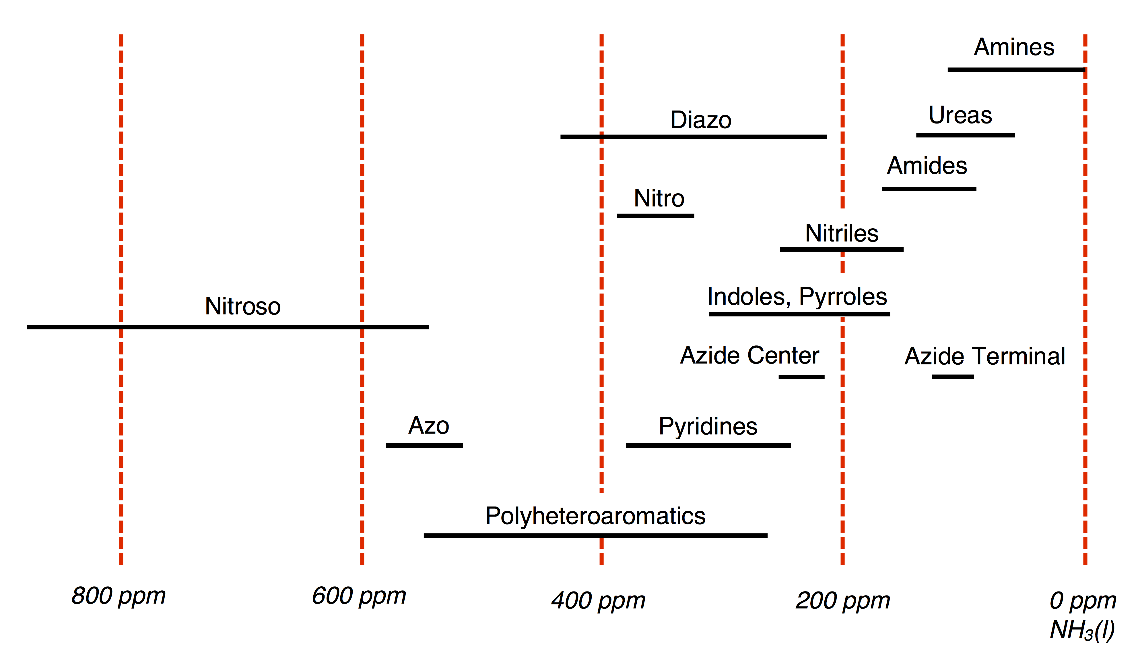 Typical 15N chemical shift (δ) values for common organic groups.